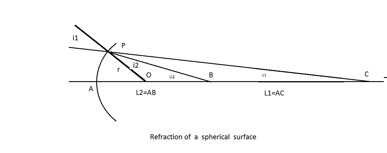 Spherical refraction